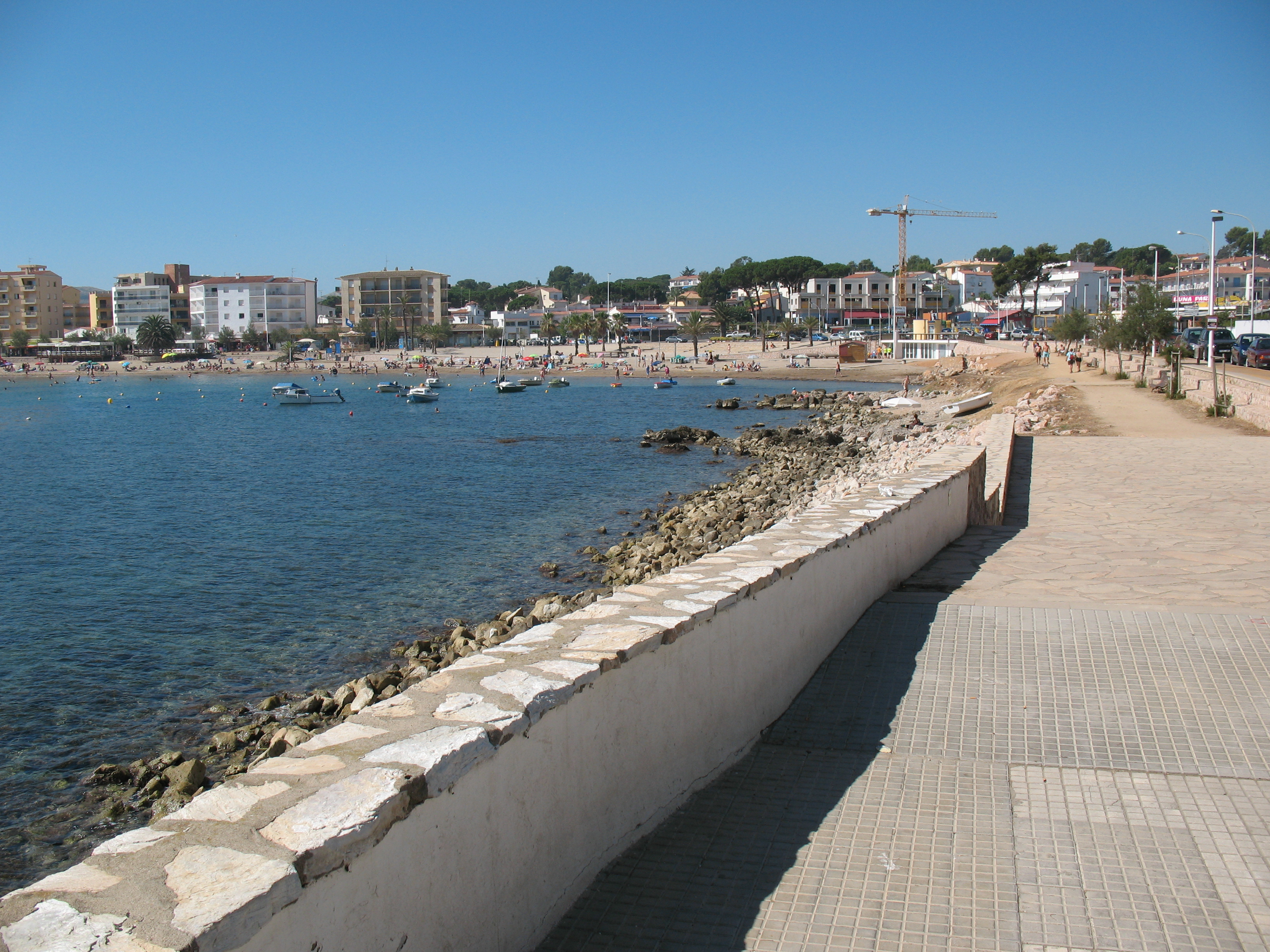 The beach of L'Escala, Spain